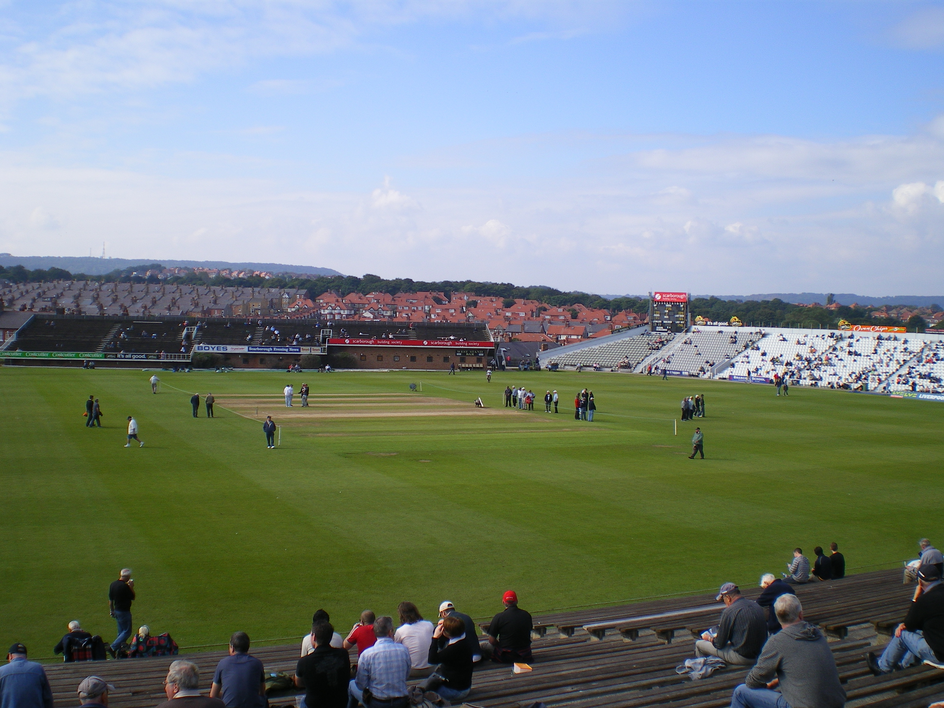 North Marine Road cricket ground, Scarborough